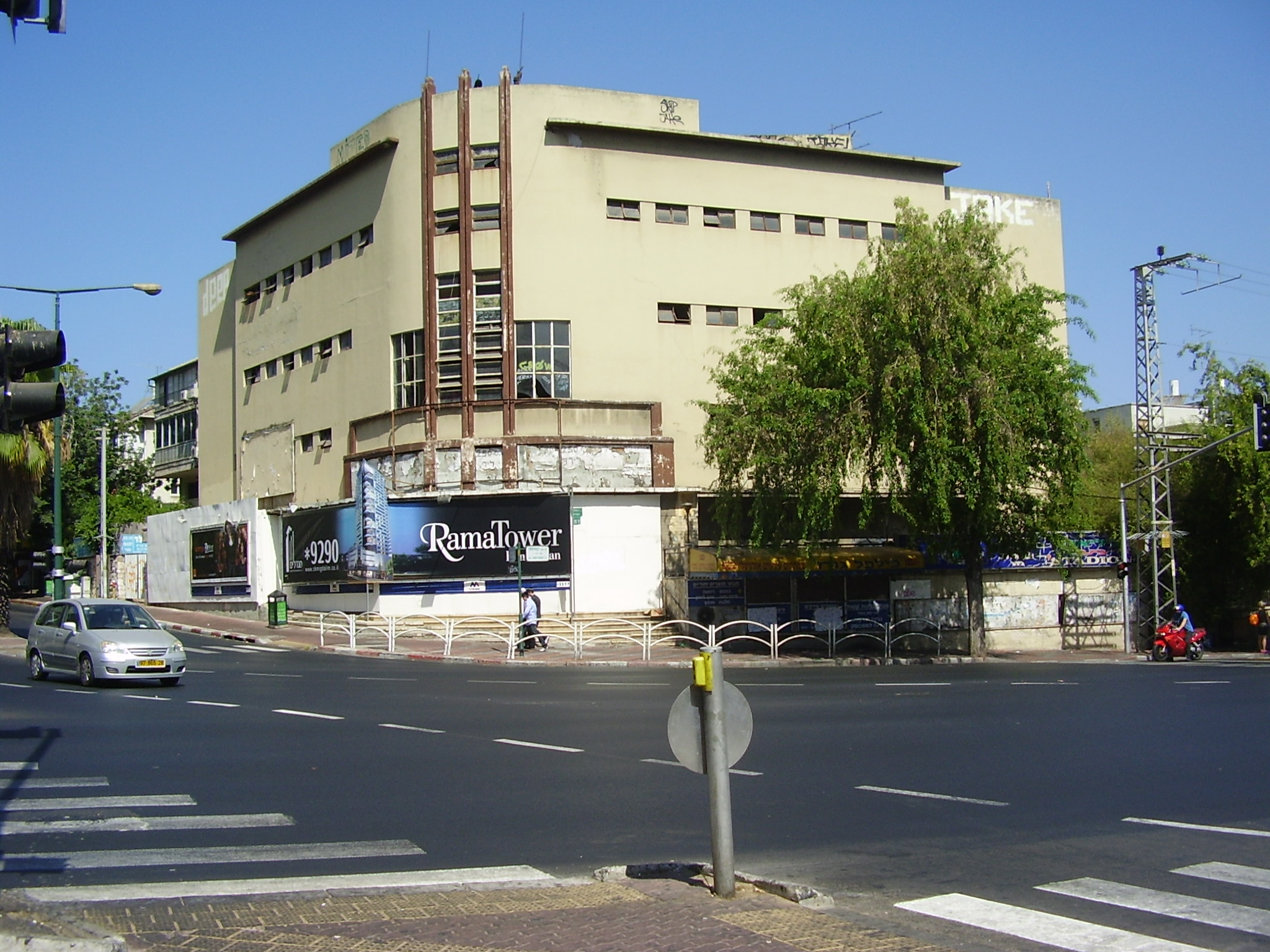 \"rama\" cinema in ramat gan